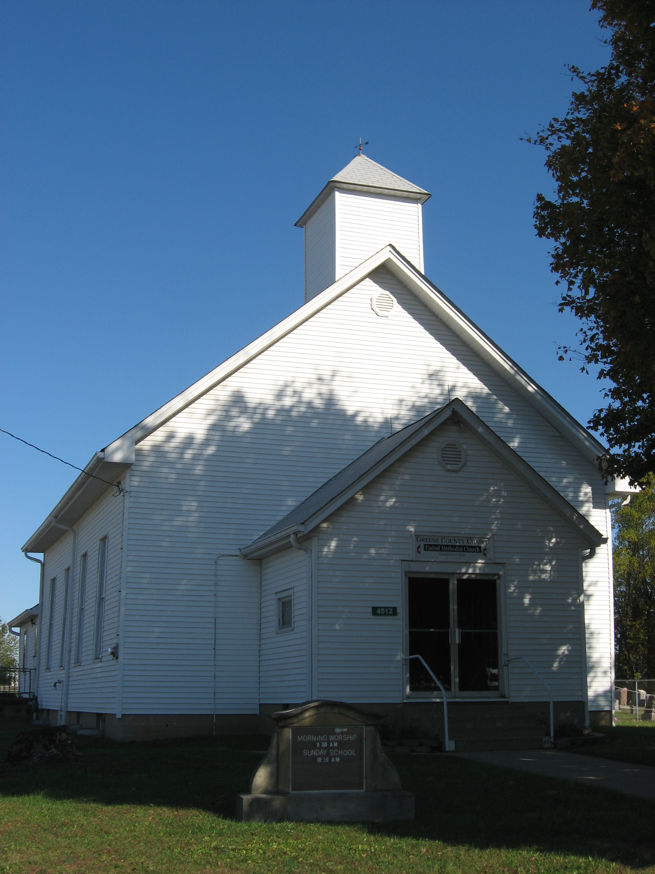 Front and western side of Greene County Chapel United Methodist Church, located at 4512 E. State Road 45 northeast of Bloomfield in Beech Creek Township, Greene County, Indiana, United States.